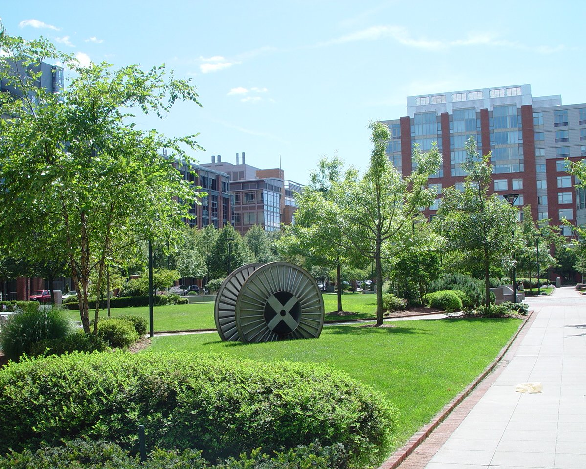 University Park at MIT is a mixed-use urban renewal project in Cambridge, Massachusetts, United States, occupying land near Central Square between the Massachusetts Institute of Technology (MIT) campus and the primarily residential neighborhood of Cambridgeport. It is a joint project of the City of Cambridge, MIT, and Brookfield Asset Management. The land is pwned by KIT. It is not part of the MIT campus.. Photo taken by user:dr.frog, August, 2006.